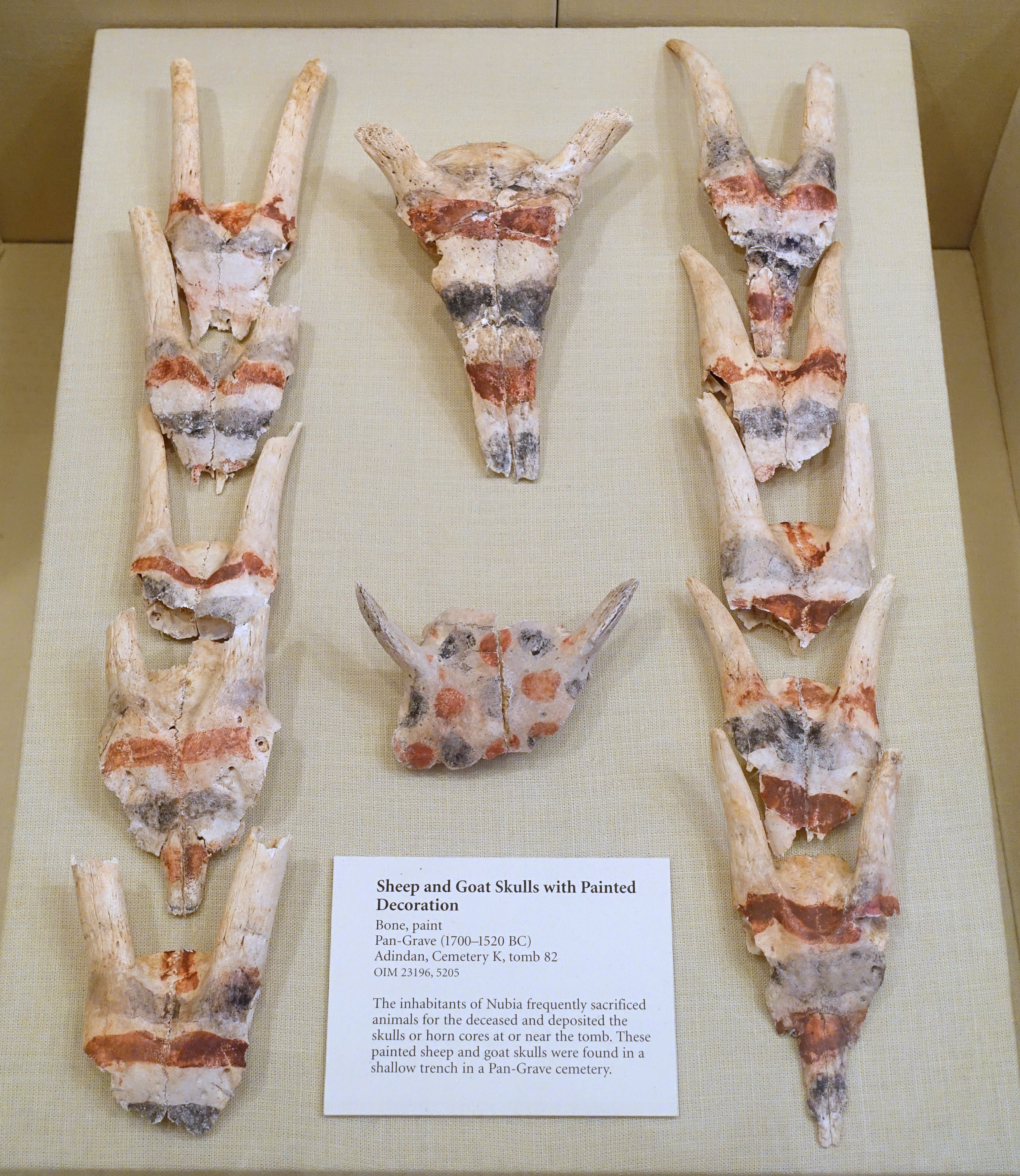 Exhibit in the Oriental Institute Museum, University of Chicago, Chicago, Illinois, USA. This work is old enough so that it is in the public domain.